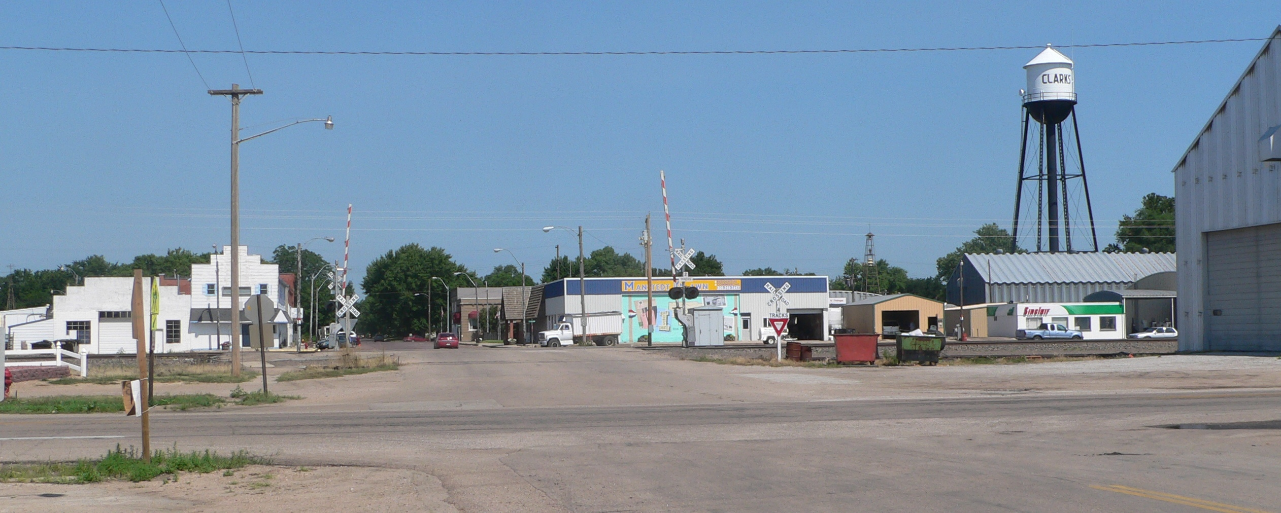 Clarks, Nebraska: Green Street, looking northwest from the southeast side of U.S. Highway 30.